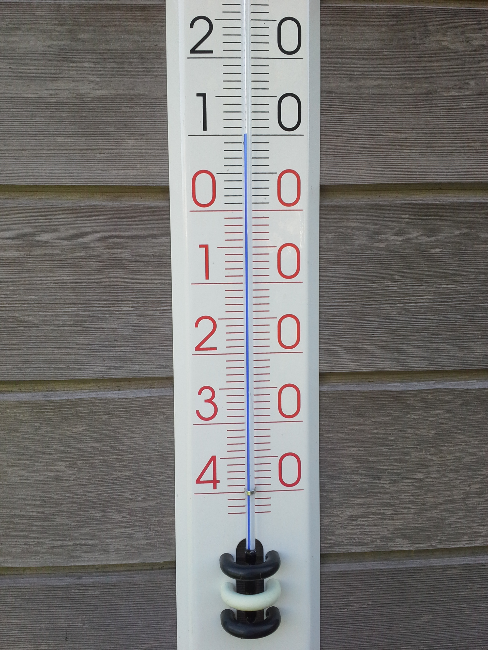 Outdoor Thermometer